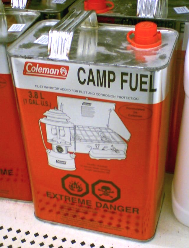 Coleman Campfuel, Walmart Canada Vaughan Superstore (Concord/Woodbridge Area)